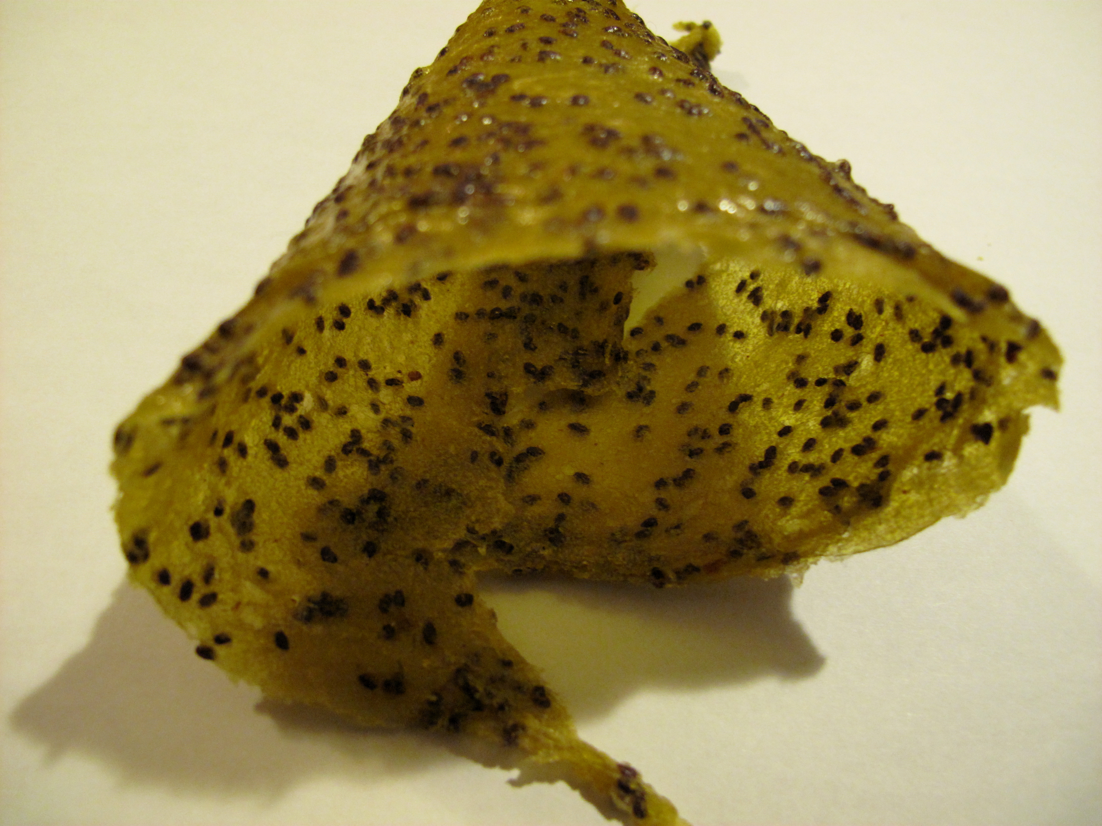 Kiwi leather